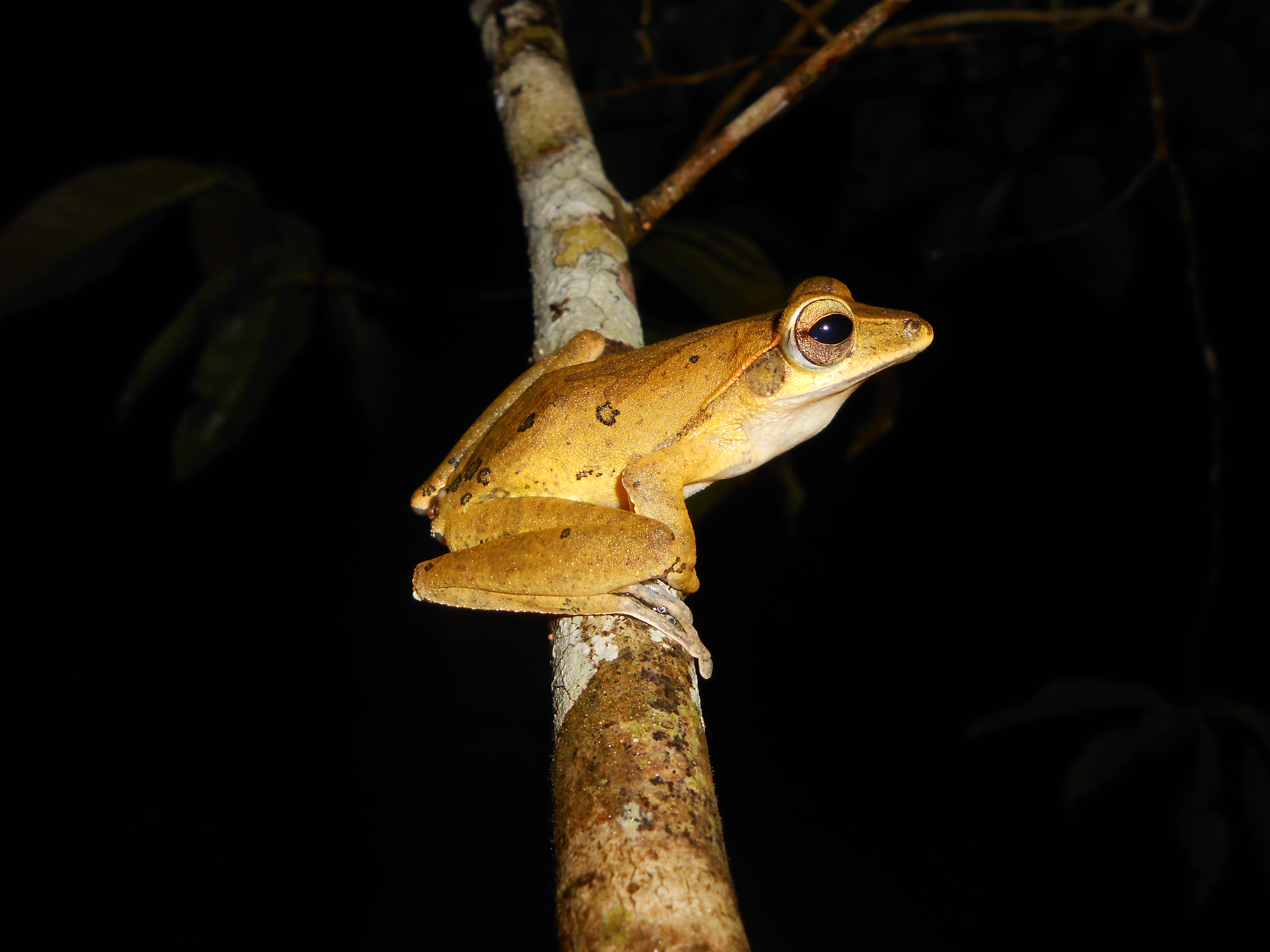 A male western tree frog, from Agumbe , Karnataka.